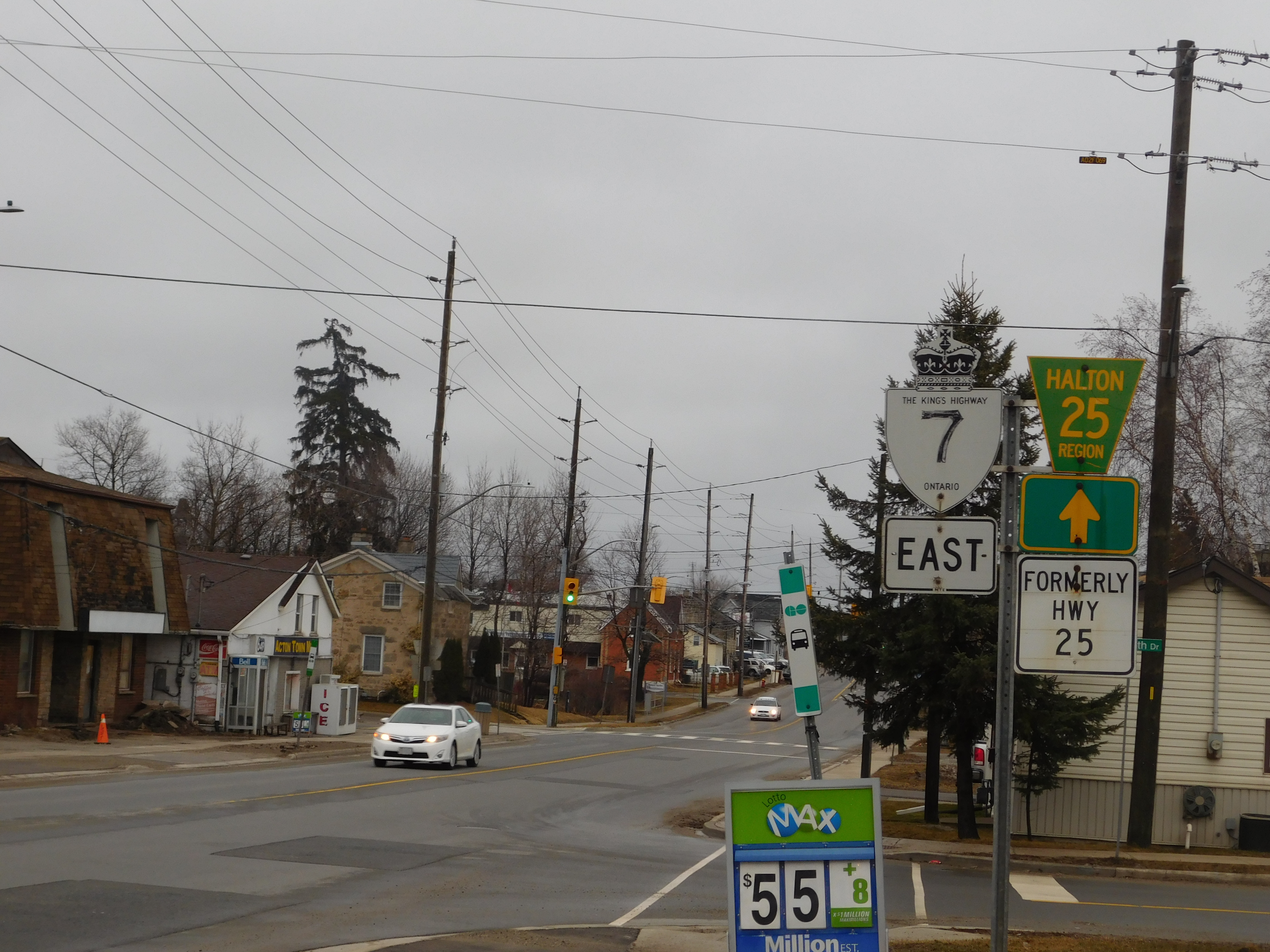 Ontario Highway 7 and Halton Regional Road 25 in Acton, Ontario.